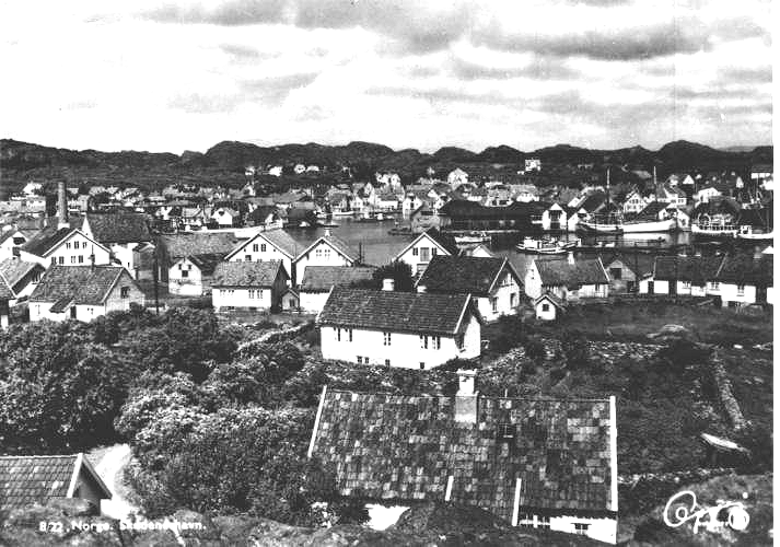 old postcard or family photo; long out-of-print, in family collection. Donated to Wiki in lieu of more modern copyright images to illustrate Skudeneshavn, Norway